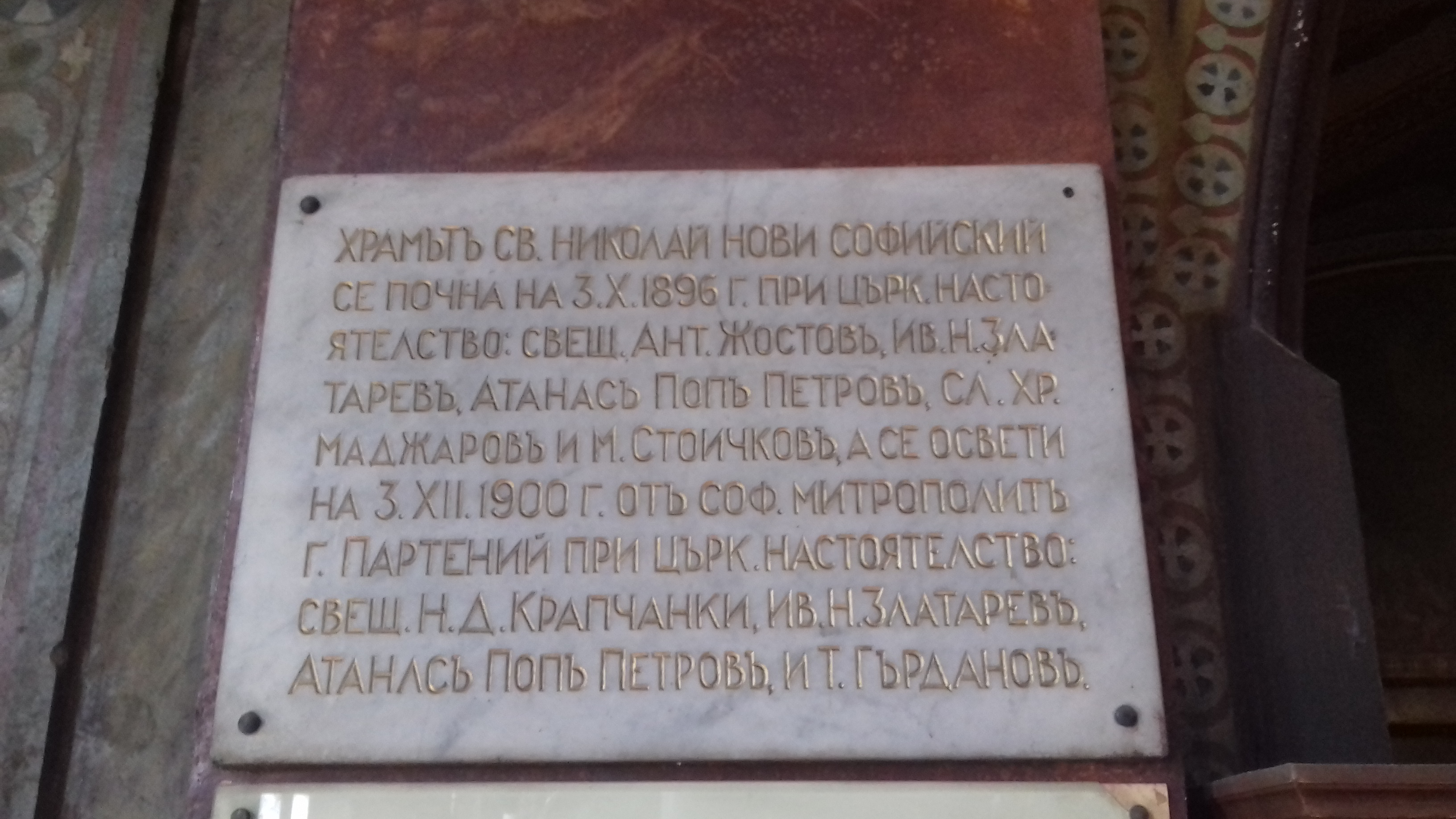 Saint Nicholas of Sofia the New Church Plaque